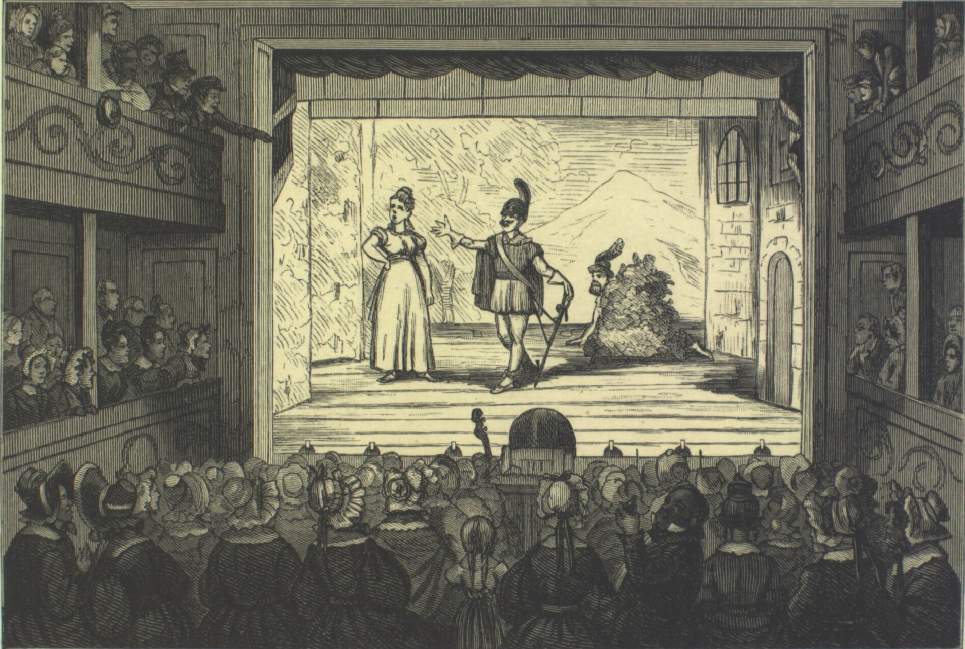 Kalkdeballen on the corner of Store Kannikestræde and Lille Kannikestræde in Copenhagen, Denmark